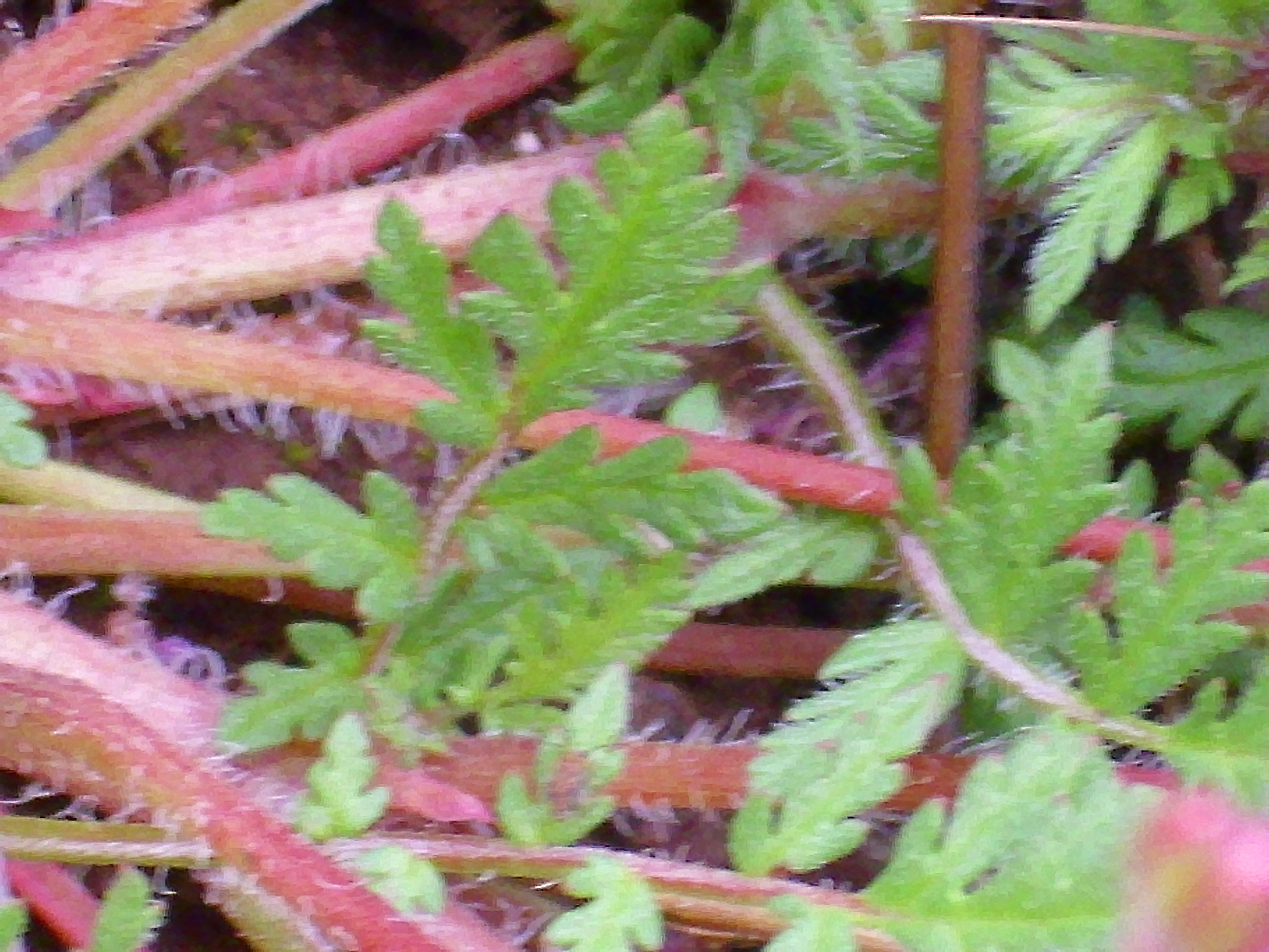 Erodium primulaceum stems and leaves Campo de Calatrava, Spain